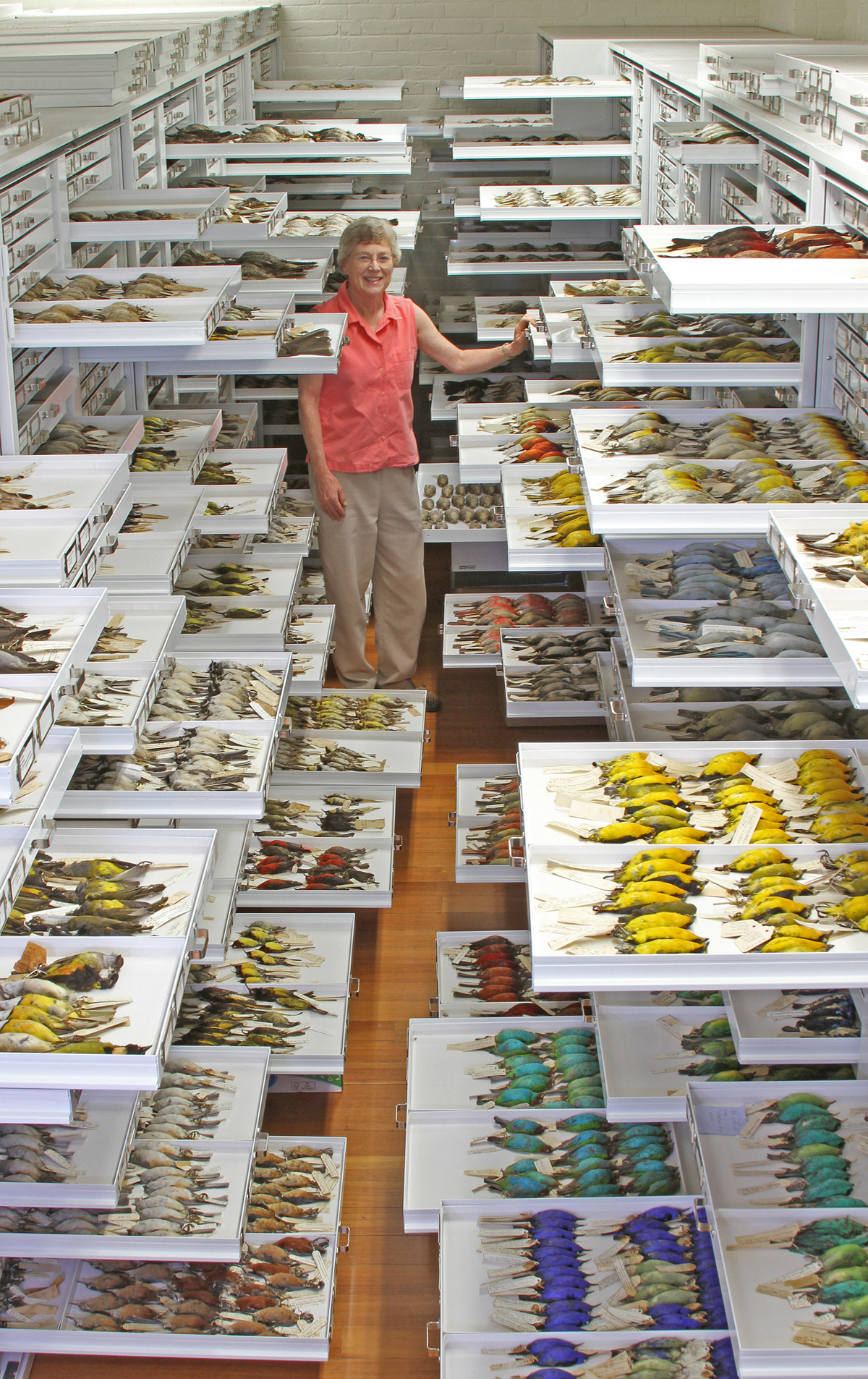 Natural history museum collections are tremendous repositories of specimens and data of many sorts, including phenotypes, tissue samples, vocal recordings, geographic distributions, parasites, and diet. Photo by Jeremiah Trimble, Department of Ornithology, Museum of Comparative Zoology, Harvard University.